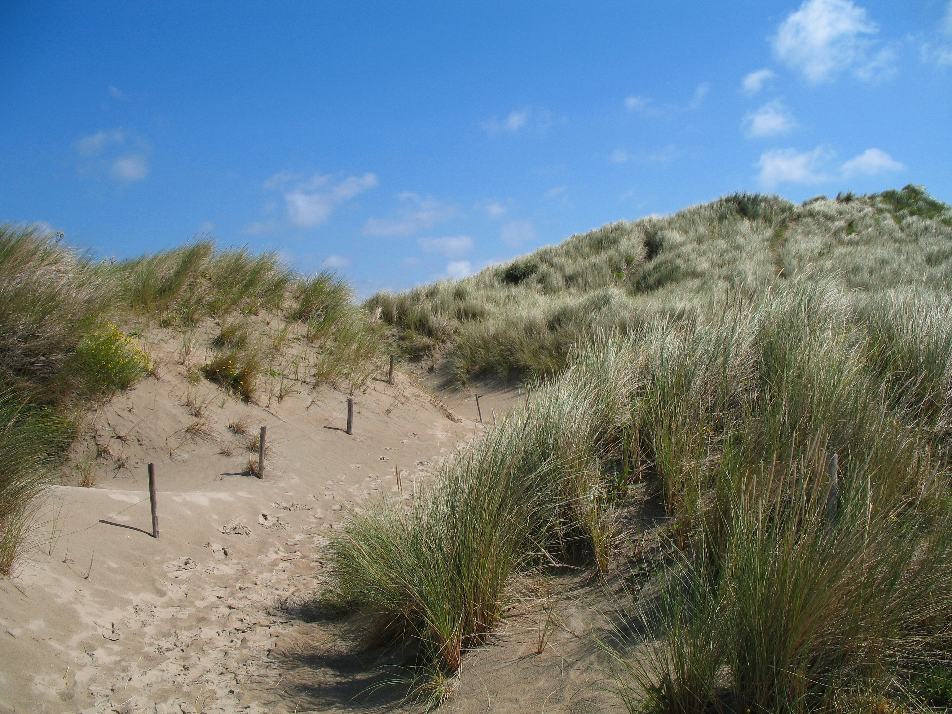 Oostduinkerke (Province of West Flanders, Belgium): Dunes in the nature reserve of 'Ter Yde'